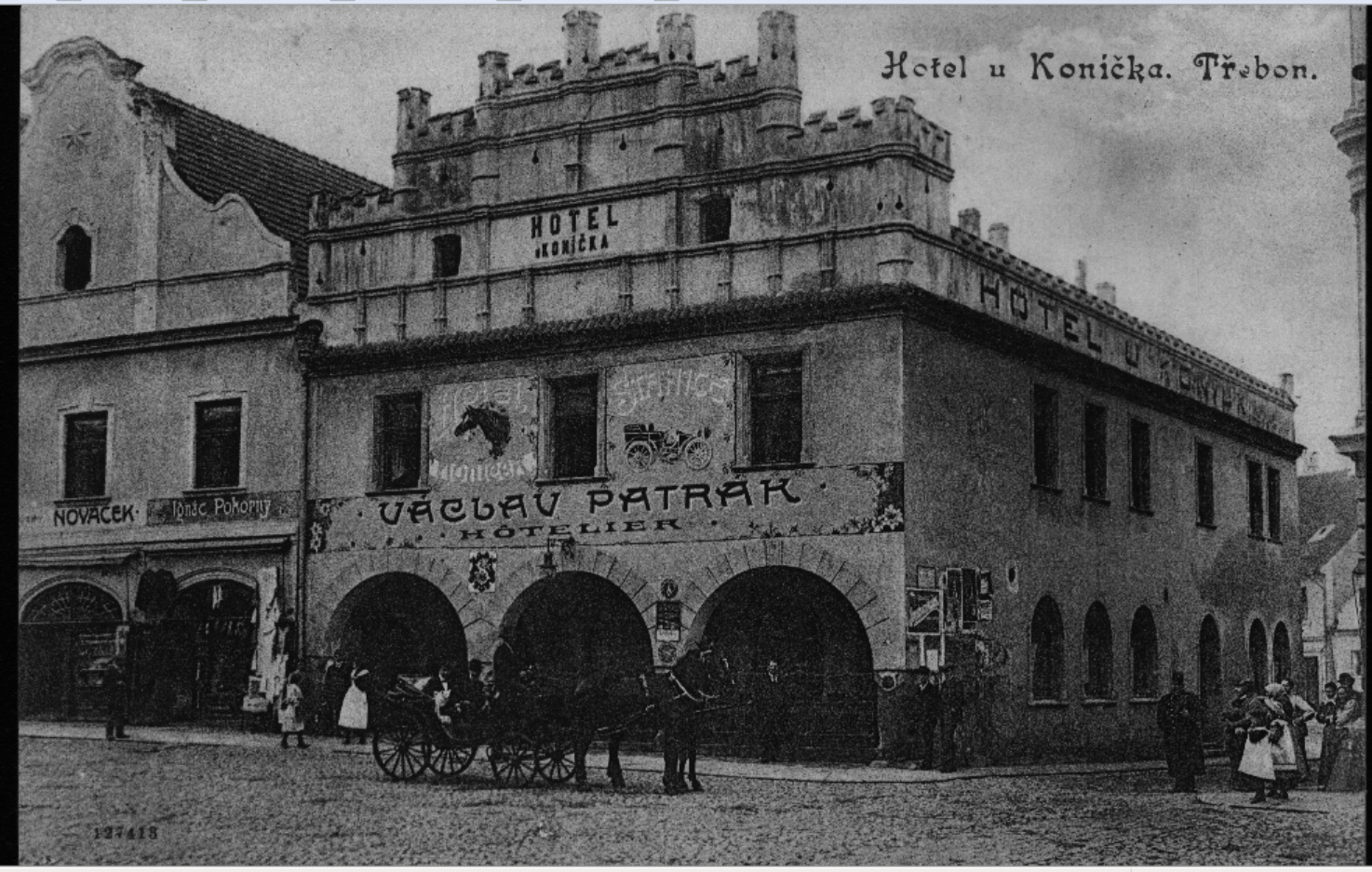 Hotel Bily konicek, Trebon. Hotels front entrance was just for accommodation, the pub entrance was from the sidewalk.